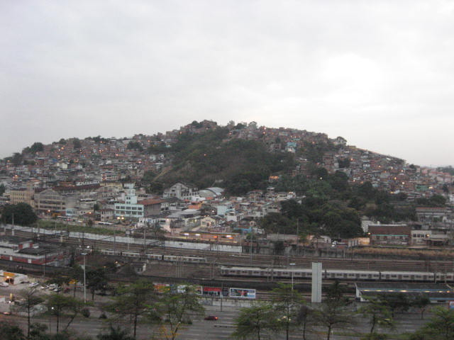 Mangueiras's Favela, Rio de Janeiro, Brazil